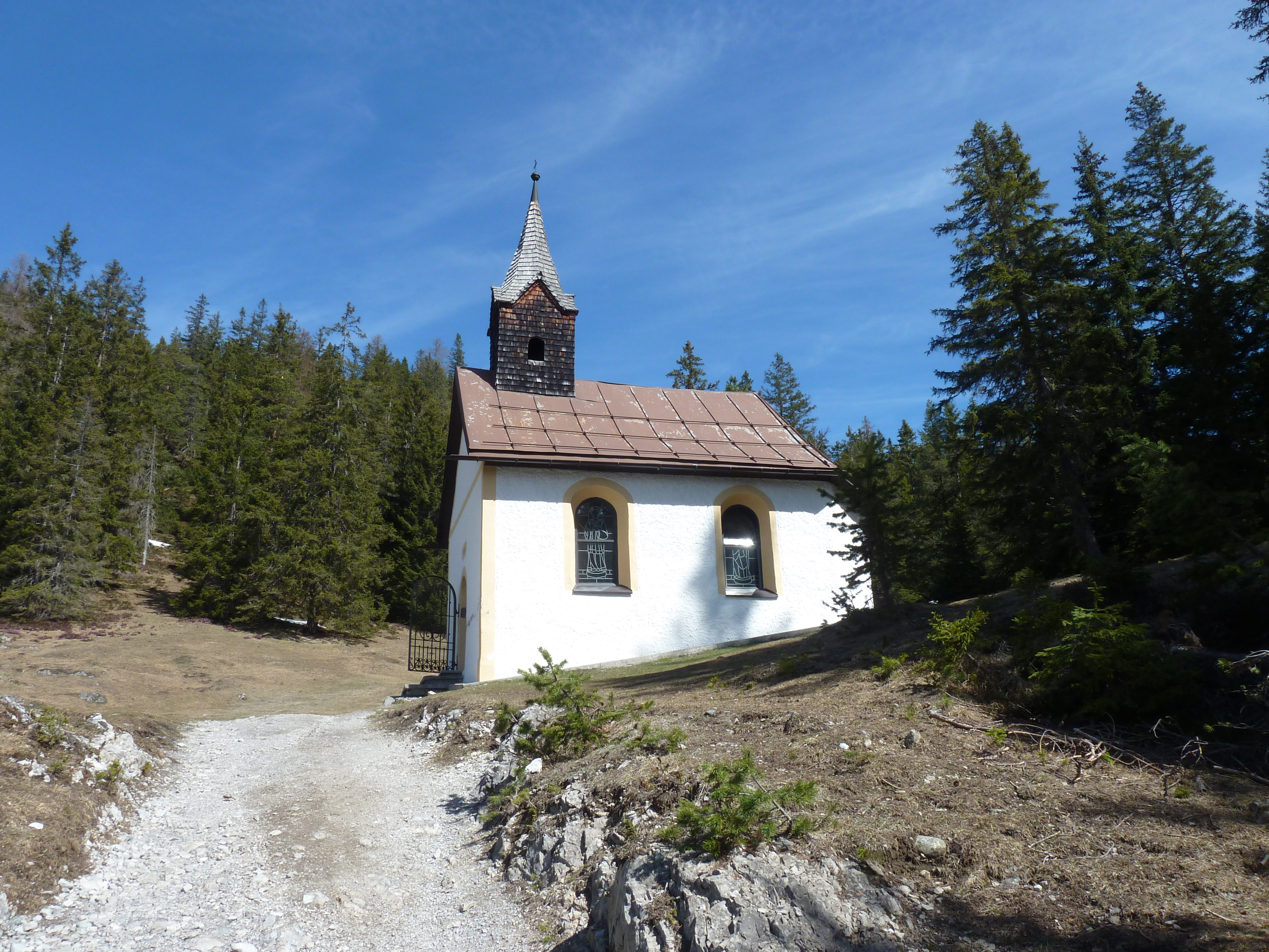 Kapelle Unserer Lieben Frau zu Sinnesbrunn